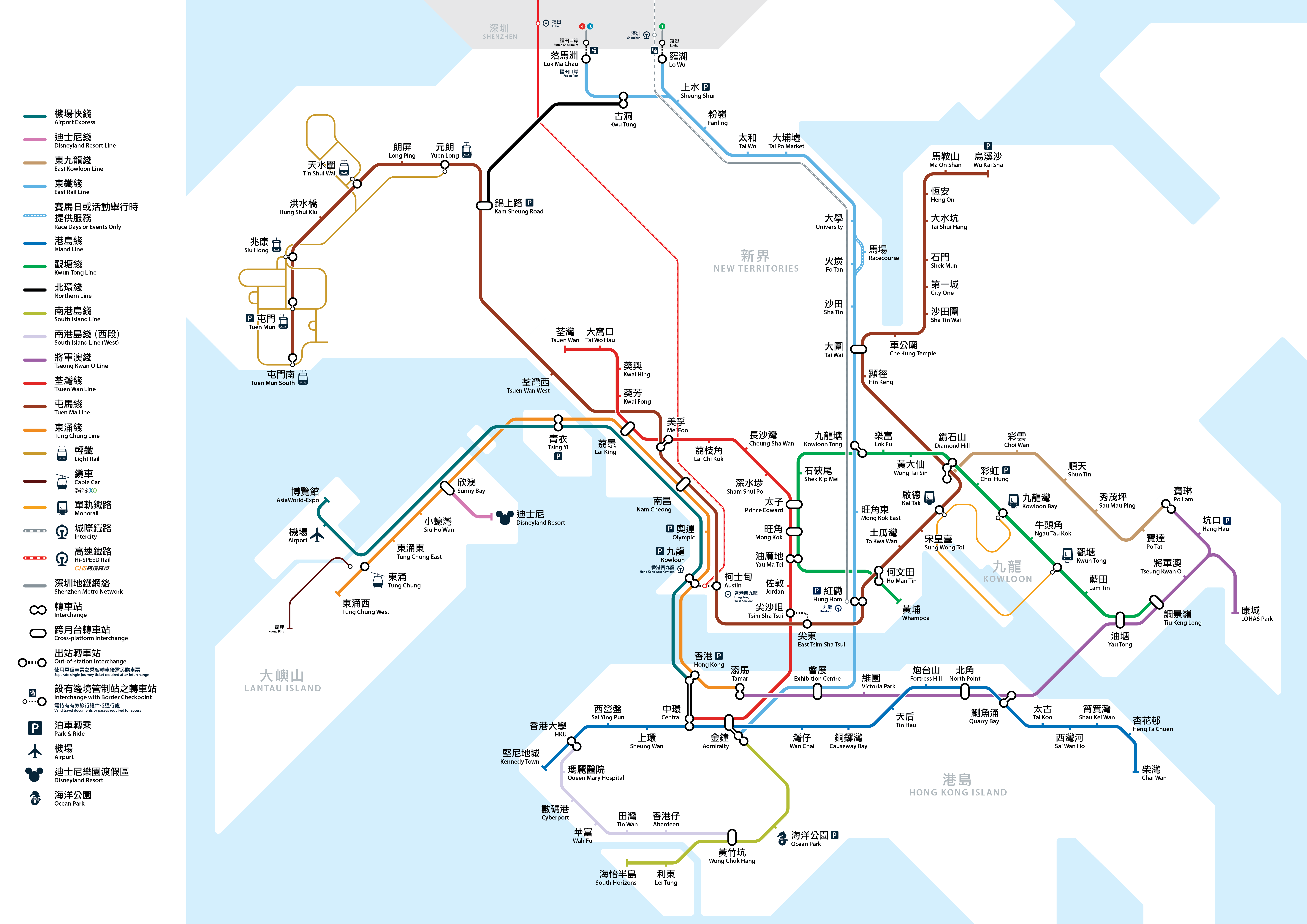 MTR Route Map with lines mentioned by RDS 2014中文（香港）: 包含《鐵路發展策略2014》擬議路線之港鐵路線圖